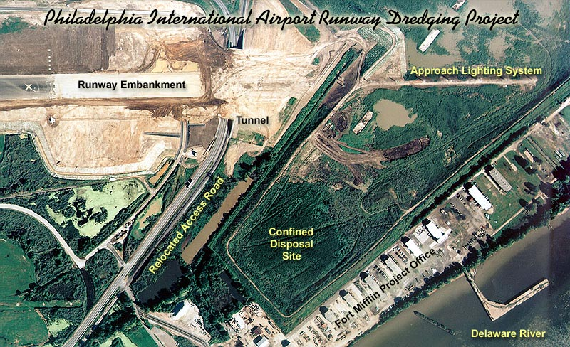 Construction of runway 8/26.